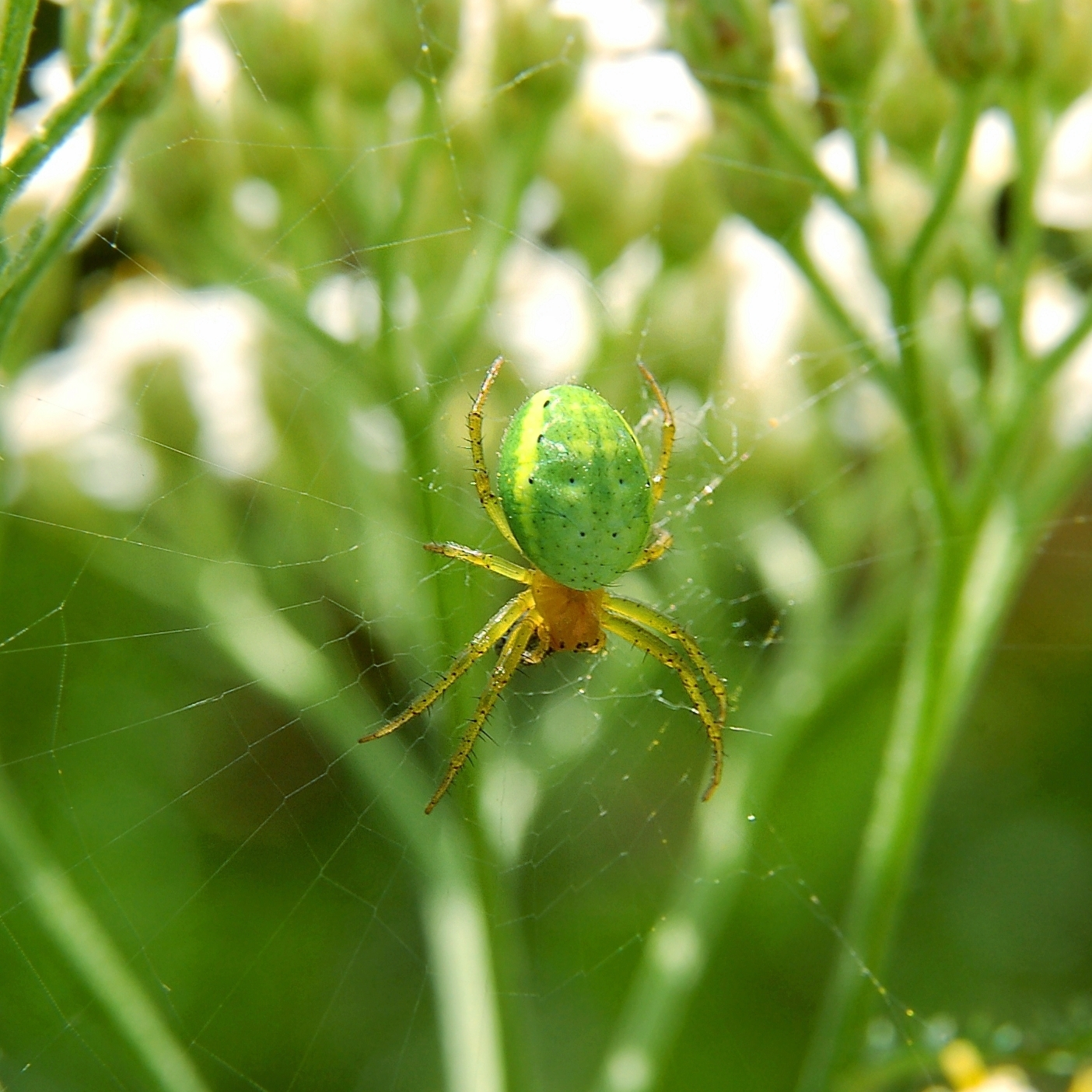 Araniella cucurbitina in Hamois, Belgium.